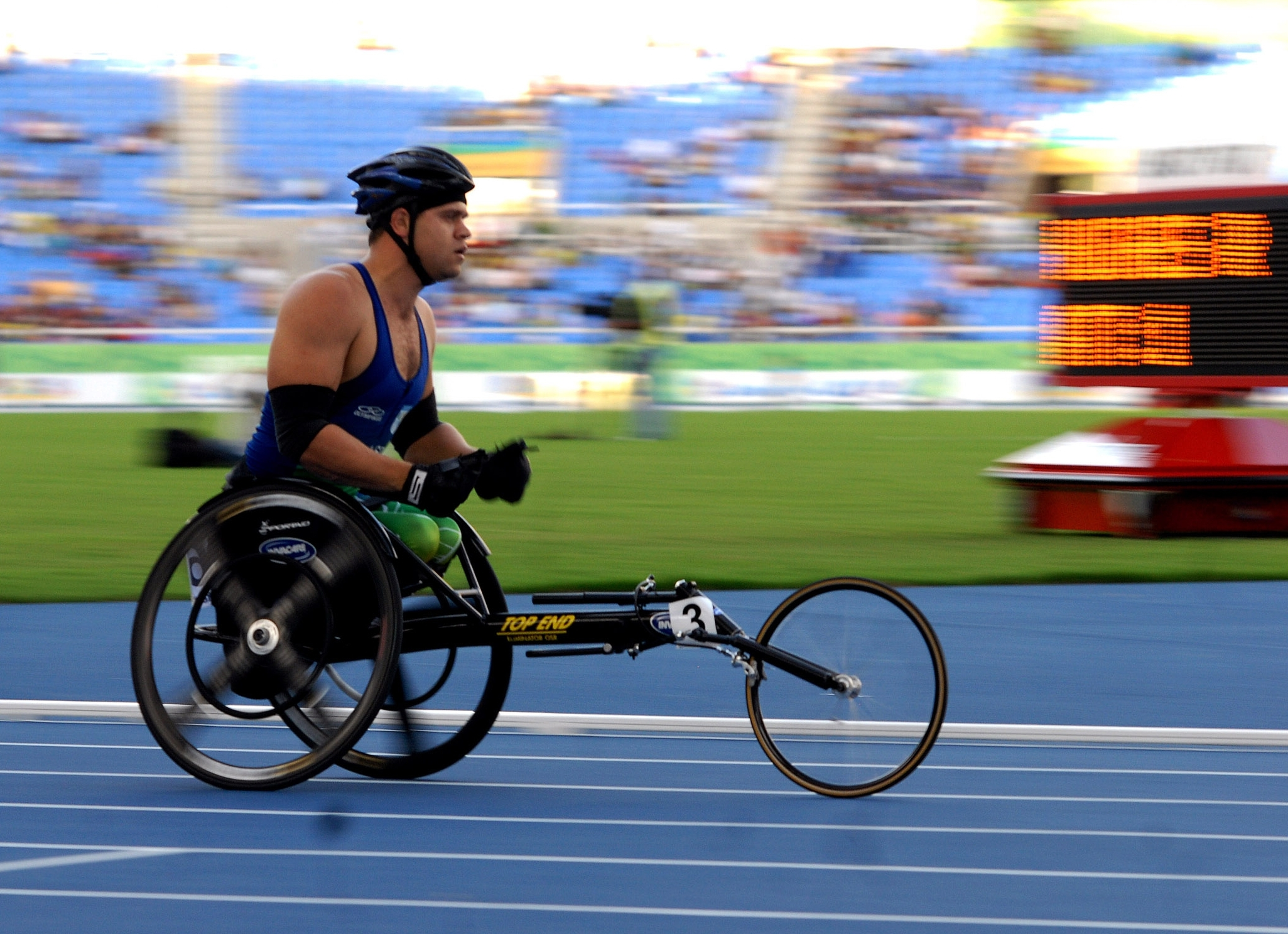 Brazilian athlete Wendel Silva Soares in the 400m wheelchair race at the 2007 Parapan American Games in Rio de Janeiro